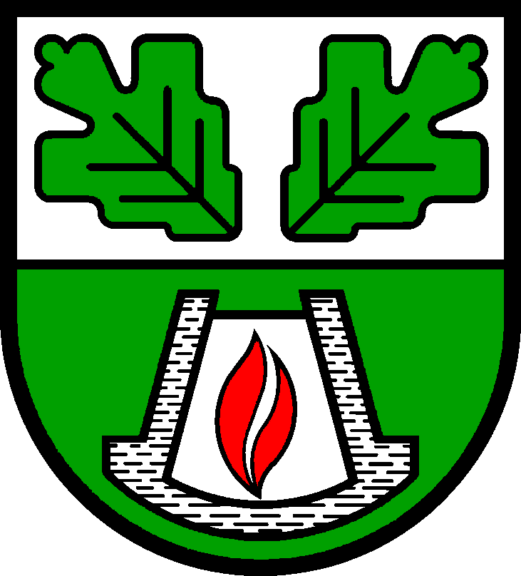 Coat of arms of the municipality Süderhackstedt in Schleswig-Holstein, Germany.